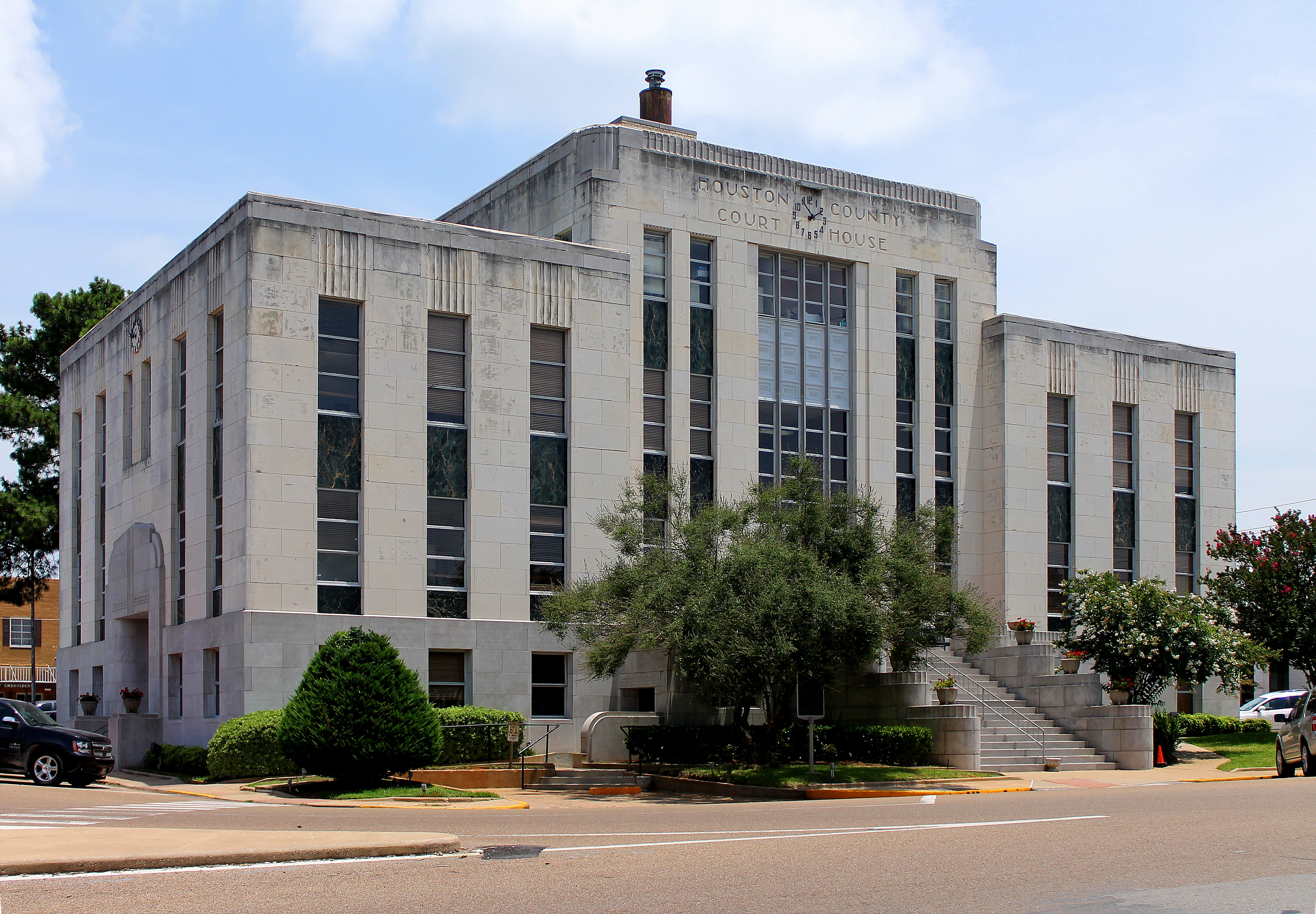 Houston County Court House in Crockett, Texas